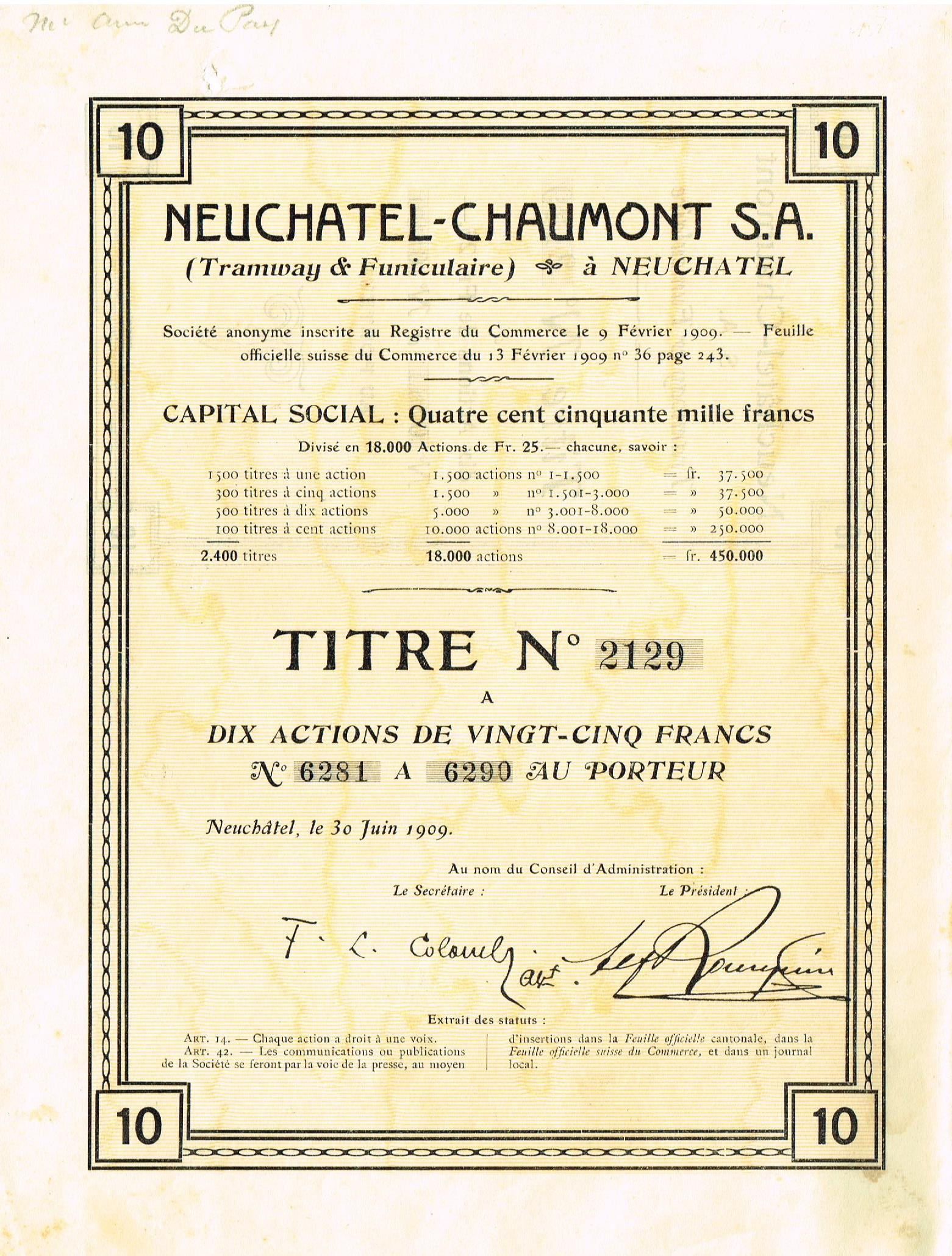 Share of the Neuchâtel-Chaumont SA (Tramway & Funiculaire), issued 30. June 1909